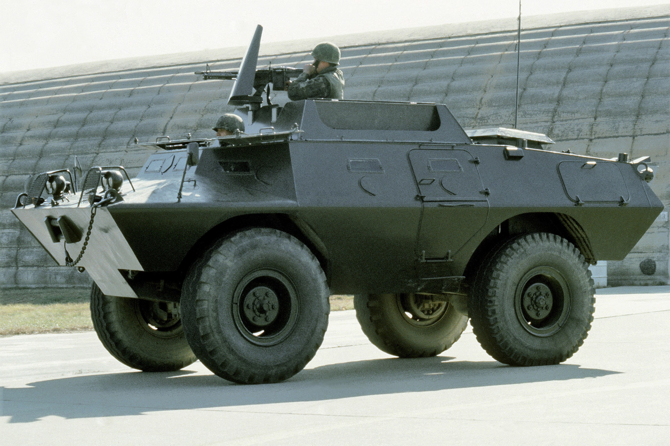 Cropped version of a previous Commons image. Cadillac Gage Commando. Cropped for an article specifically on the APC. Limited contextual relevance to original work.